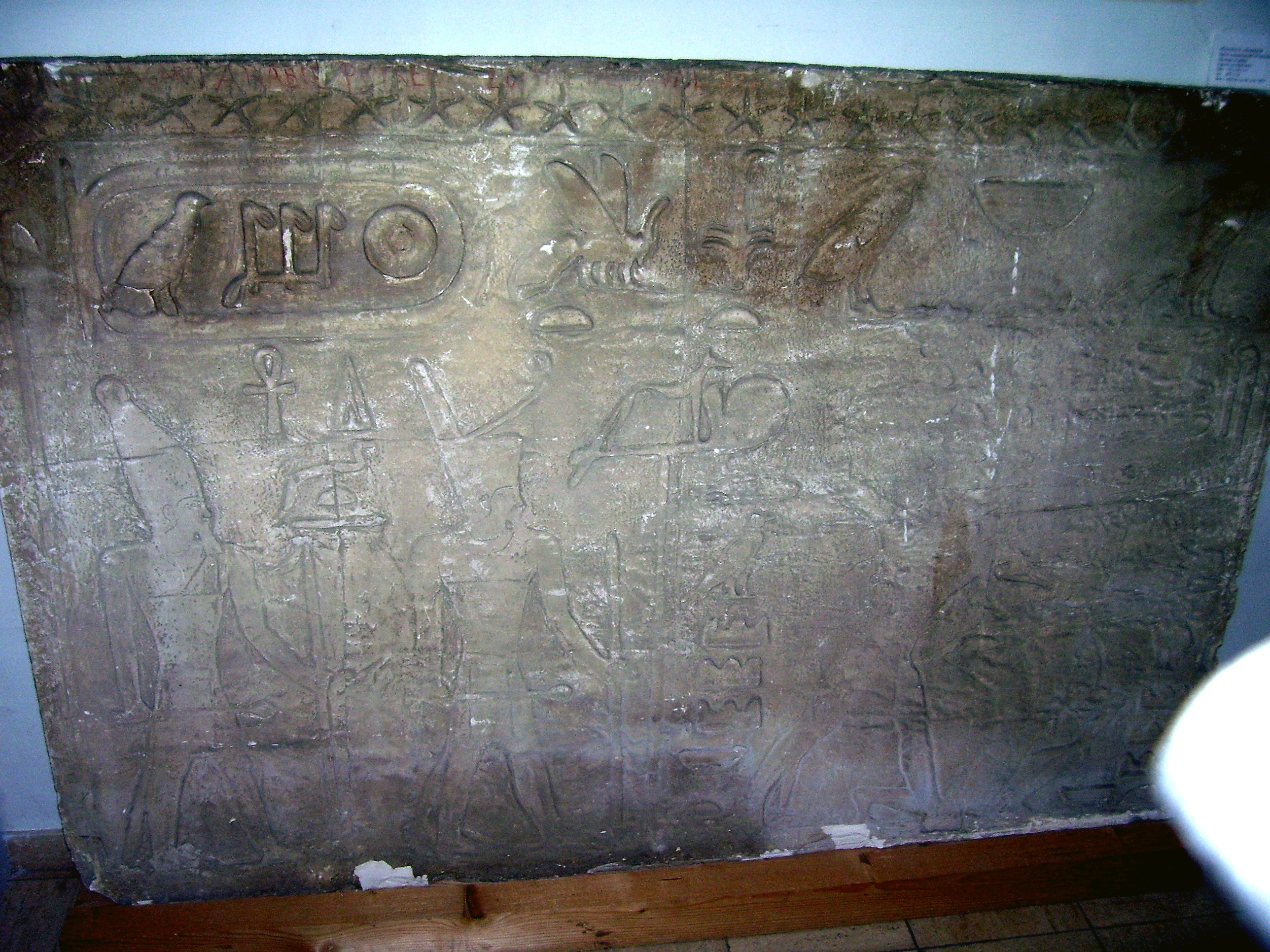 A lottinoplastie of an Egyptian bas-relief found in the Wadi Maghareh in the museum of Bernay.